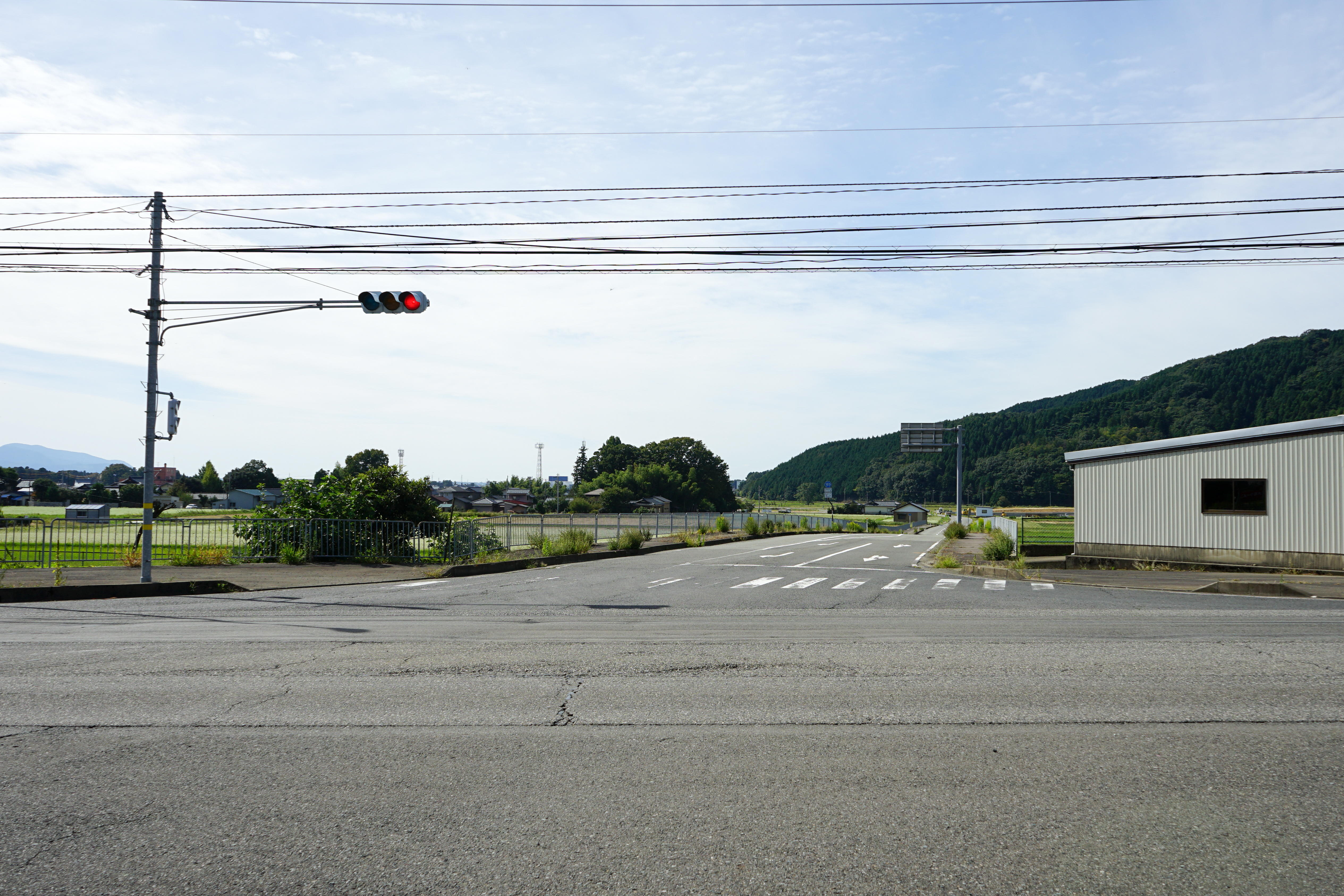 Maedani Crossroads, Awara-shi, Fukui Prefecture, Japan